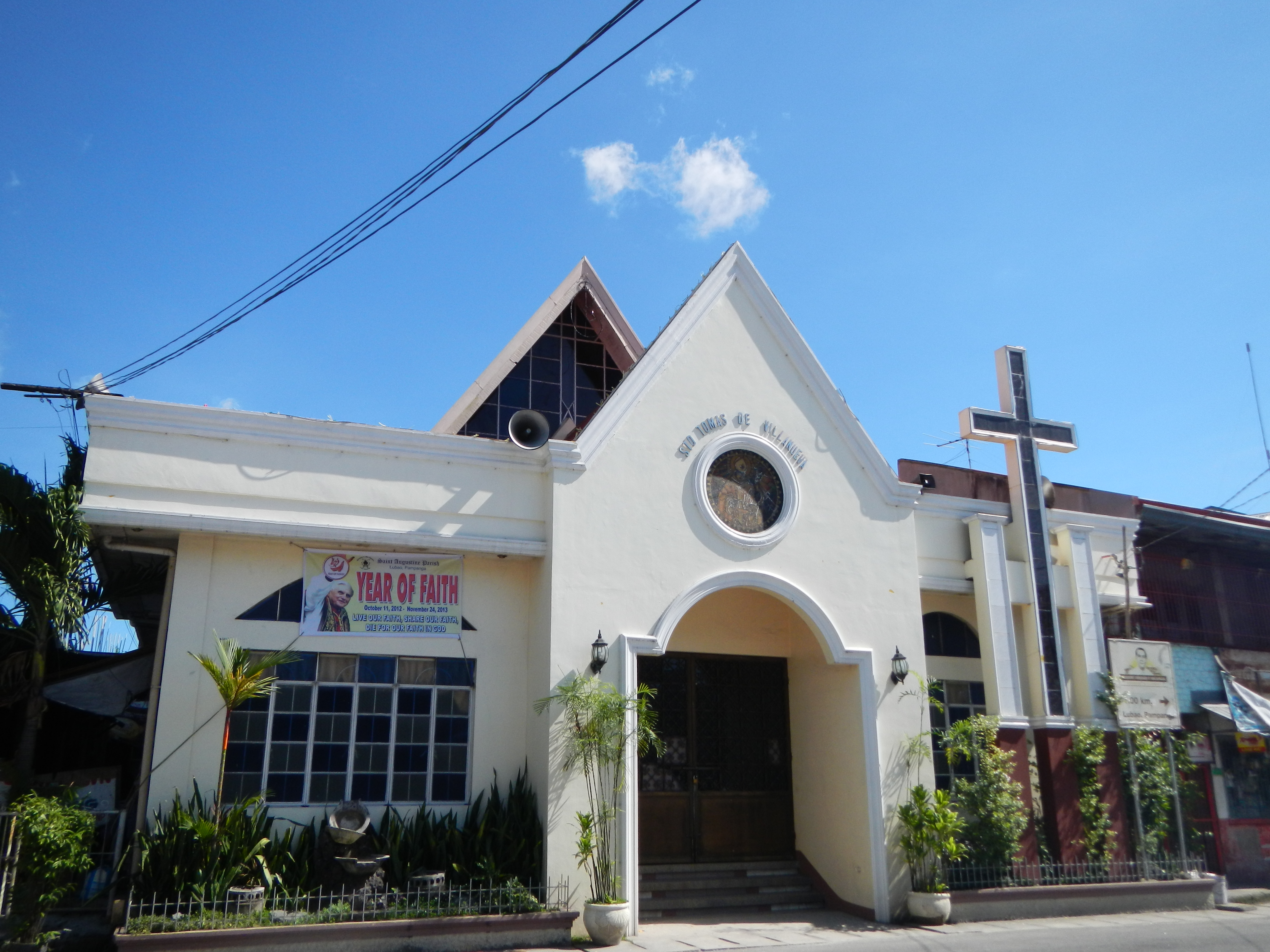 Lubao, Pampanga[1] Sto. Tomas de Villanueva Church